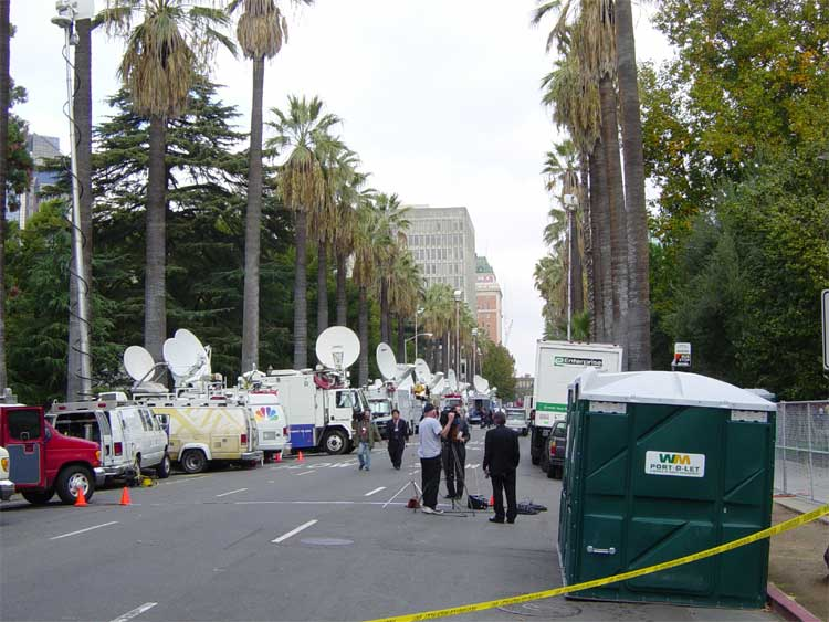 . Photo taken at Arnold Schwarzenegger's inauguration on November 17, 2003. Image released under the GNU FDL.